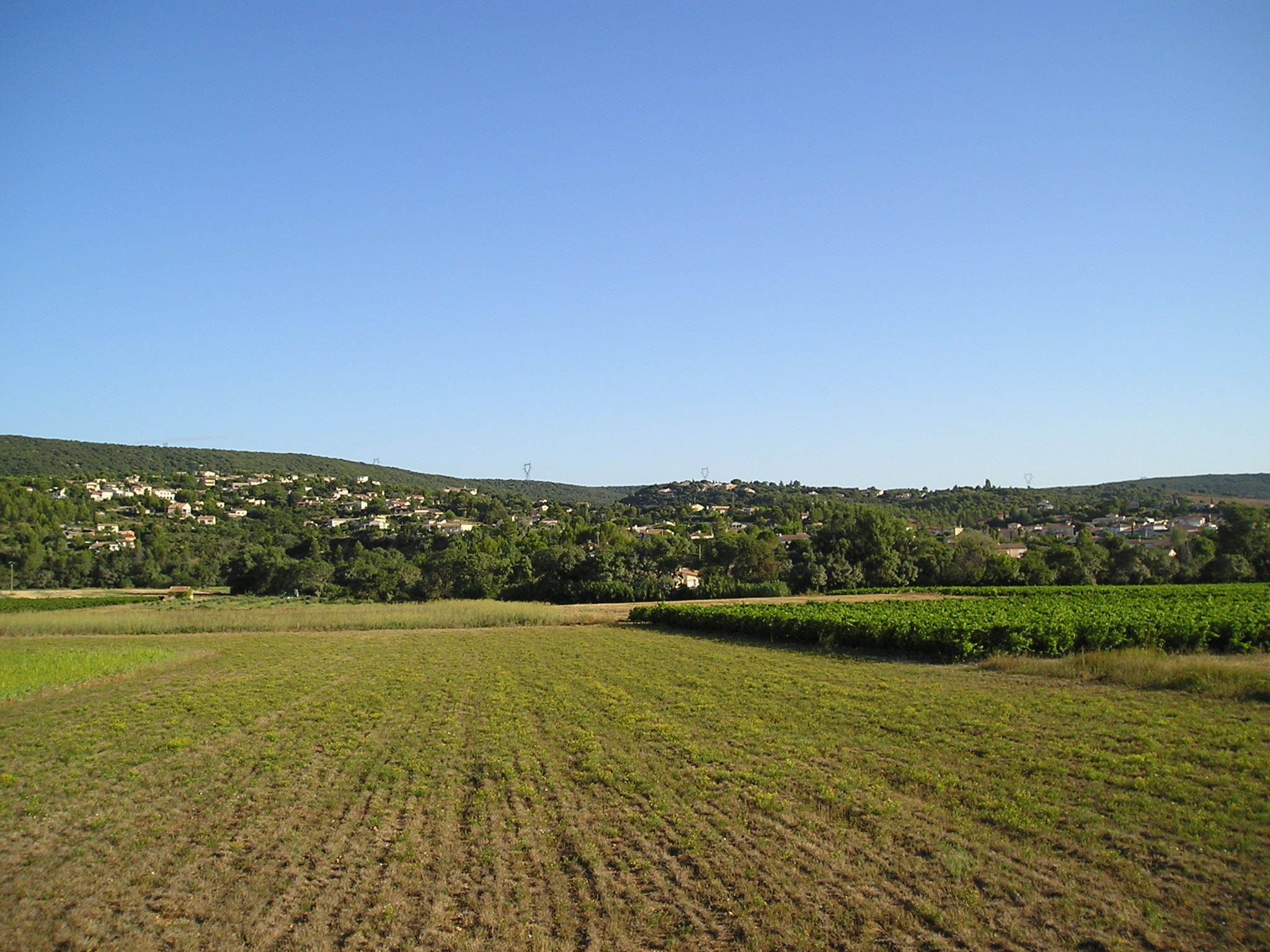 In Hérault, France, Combaillaux viewed from South and D127 road. The two inhabited hills are 178 meters high (75m for the photographing point). Another hill, the Closcas (276m), begins to appear behing the left inahbaited one.